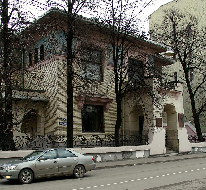 Ryabushinsky House (Maxim Gorky House) by Fyodor Schechtel, Malaya Nikitskaya, Moscow